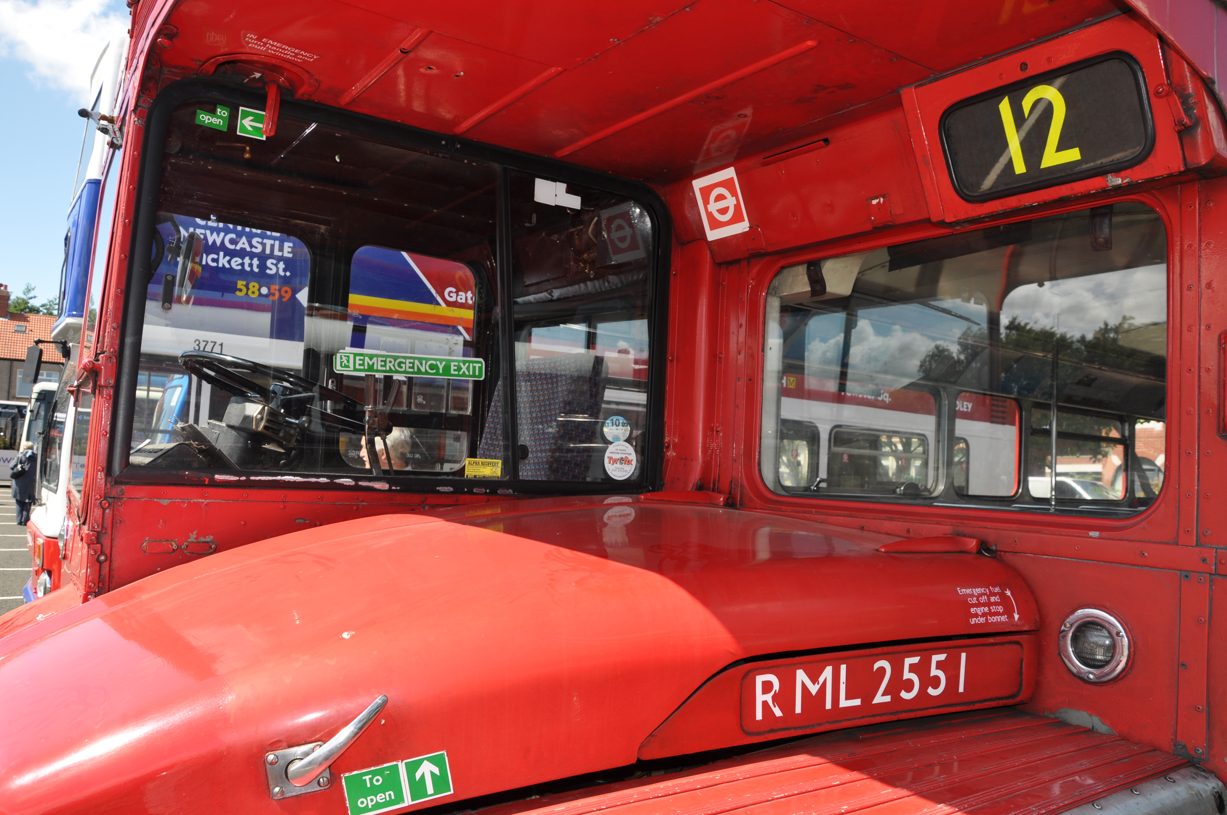 The driver's cab and bonnet of preserved Routemaster bus RML2551 (reg. JJD 551D), pictured at the 2009 Whitley Bay Bus Rally. It's still wearing the livery and route 12 branding of its former owner, London Central.